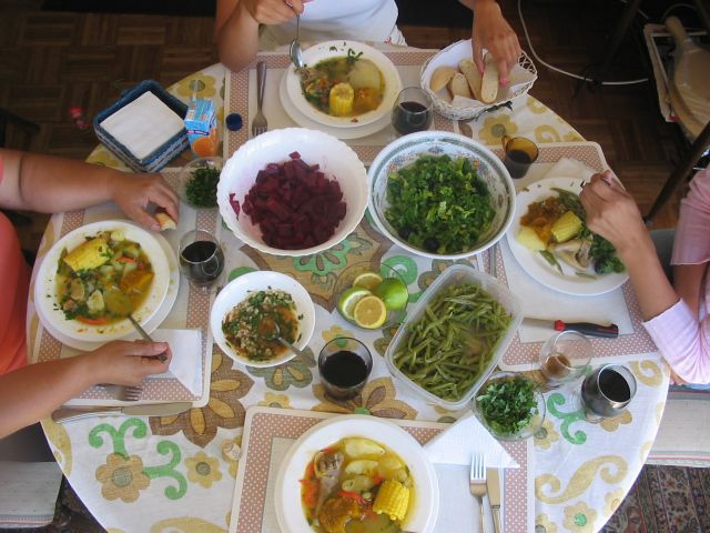 Chilean Cazuela and assorted salads.